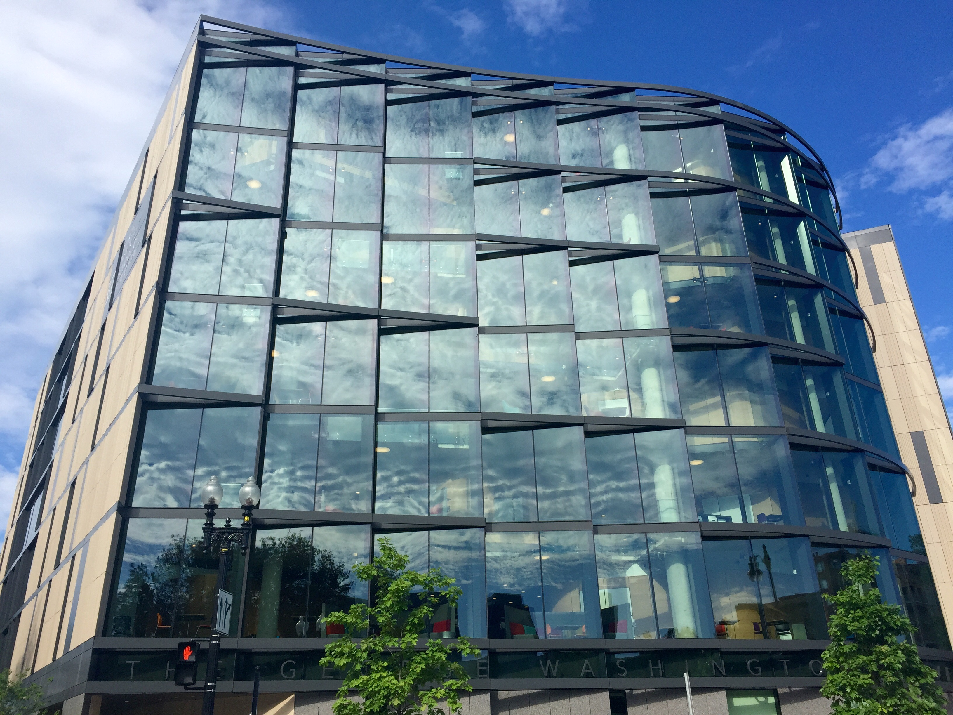 “Closer Than This” ―St Lucia, 2013 art ―where you can find it Milken Institute School of Public Health